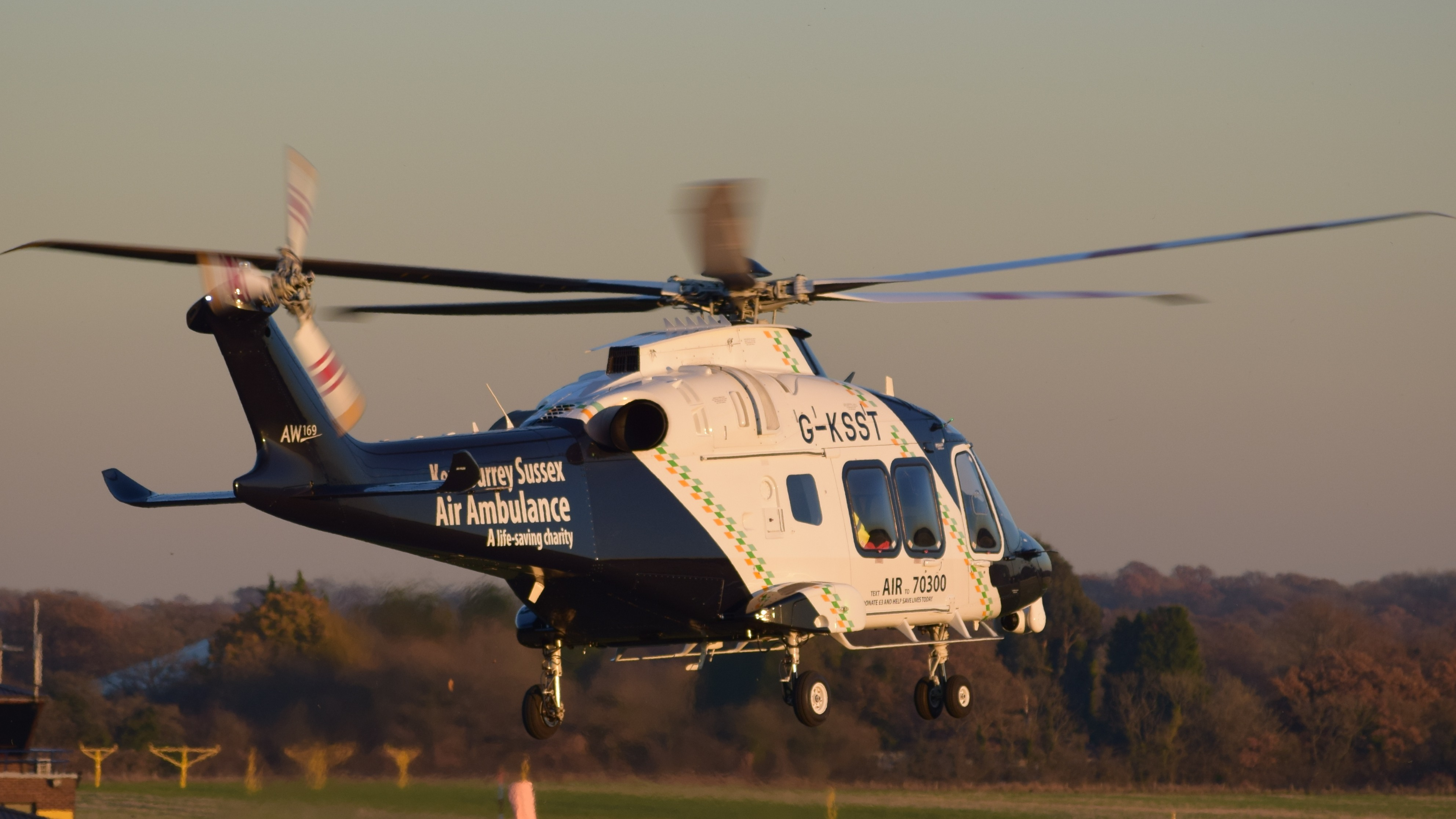 AW169 Helicopter registered G-KSST and operated by the Kent, Surrey and Sussex Air Ambulance, at Redhill Aerodrome, Surrey